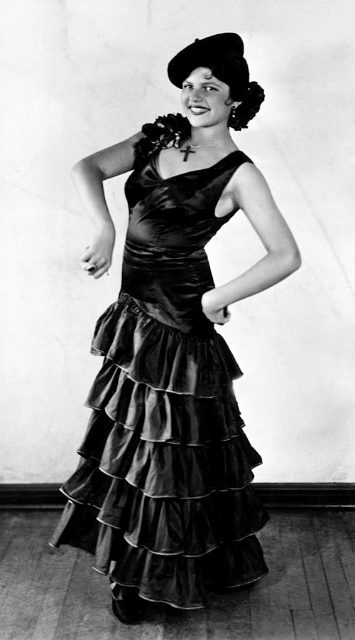 Photograph of Margarita Cansino (Rita Hayworth), age 12, one half of the duo the Dancing Cansinos, accompanying the article "Sweetheart of the A.E.F." a feature story by Jerome Beatty appearing in the December 1942 issue of The American Magazine